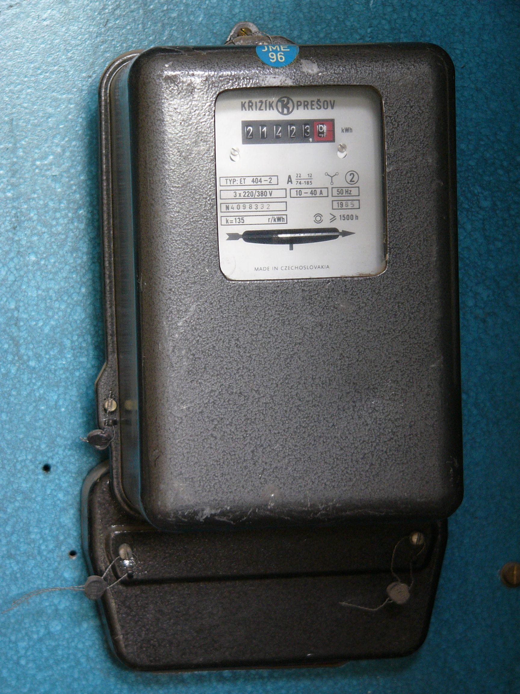 Czech electric meter. Photo taken by Petr.adamek (petr.adamek(at)bilysklep.cz) in September 2005.